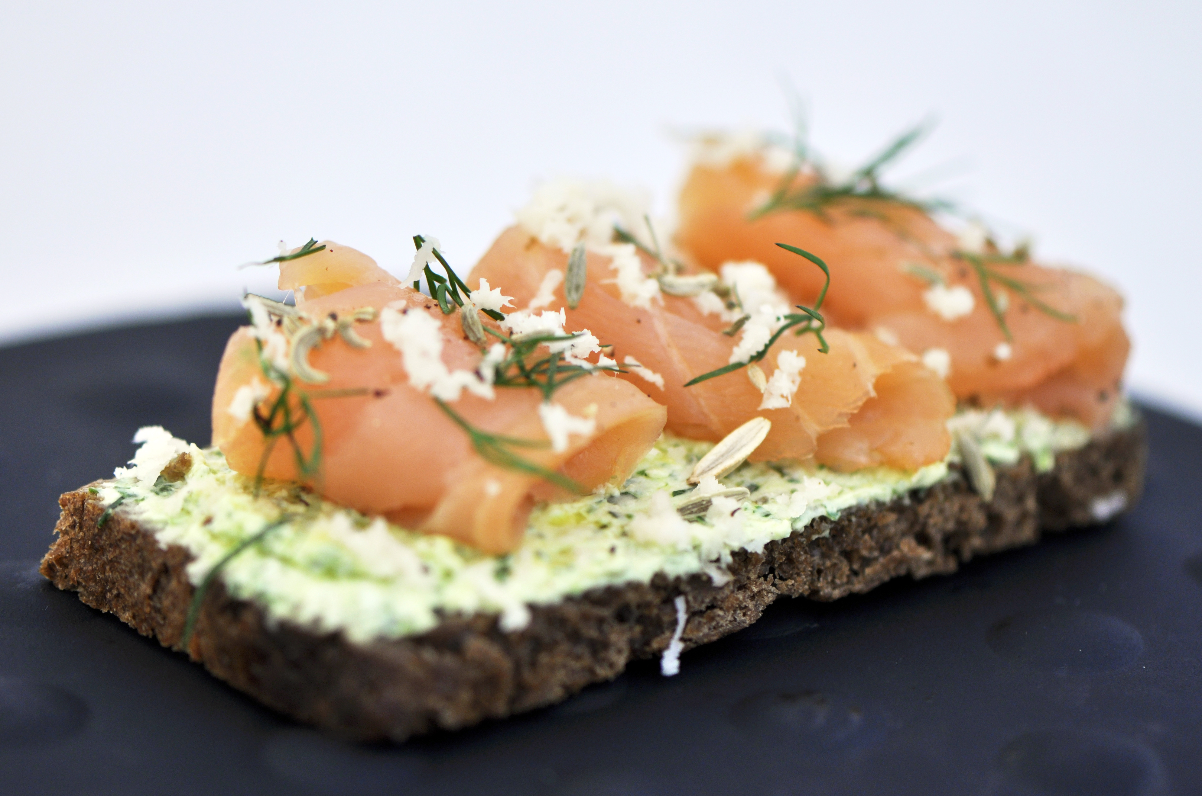 Cold smoked salmon with horseradishcream and roasted dillseeds